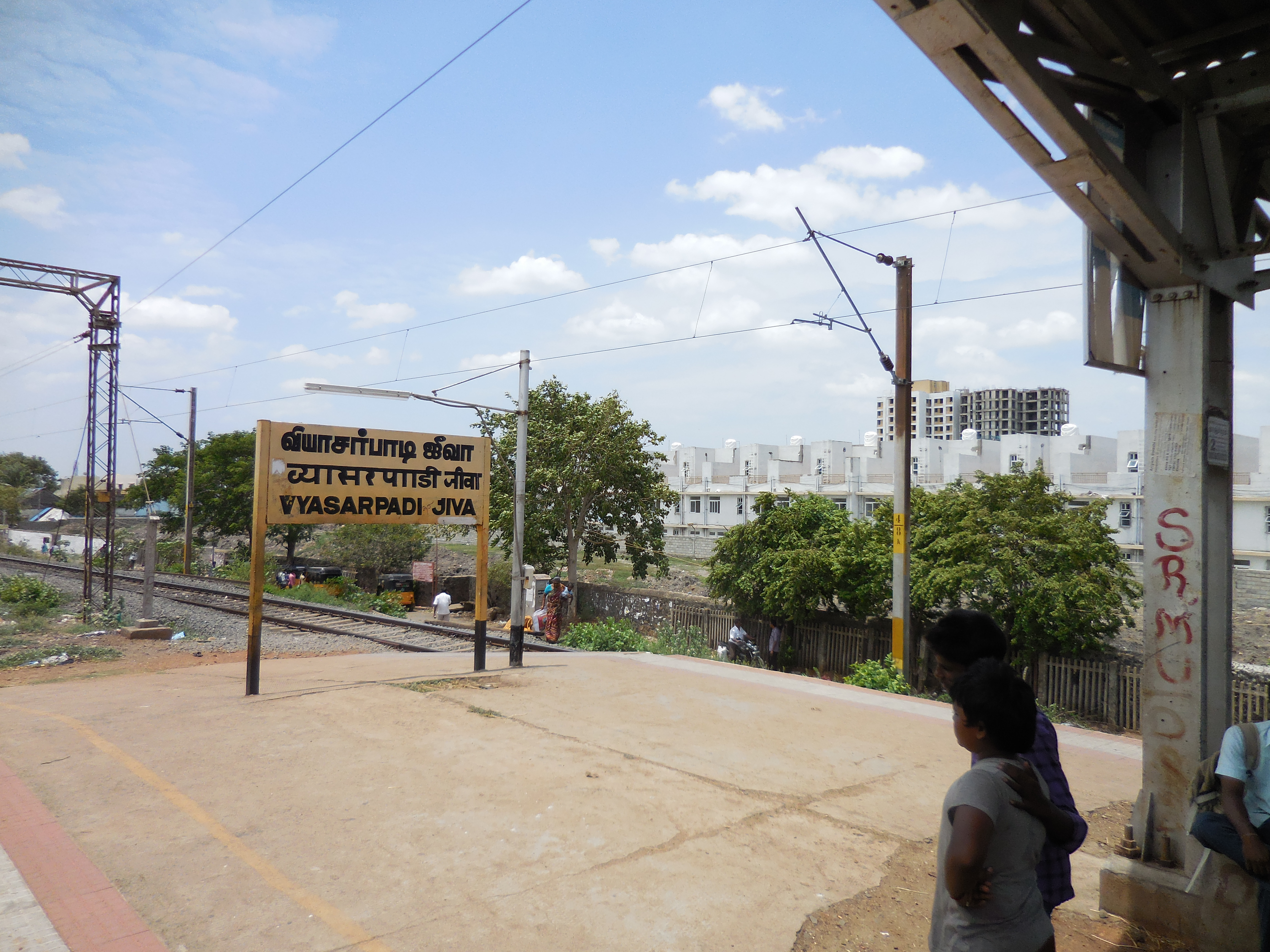 Eastern end of Vyasarpadi railway station, Chennai, taken on 15 July 2014 at noon.